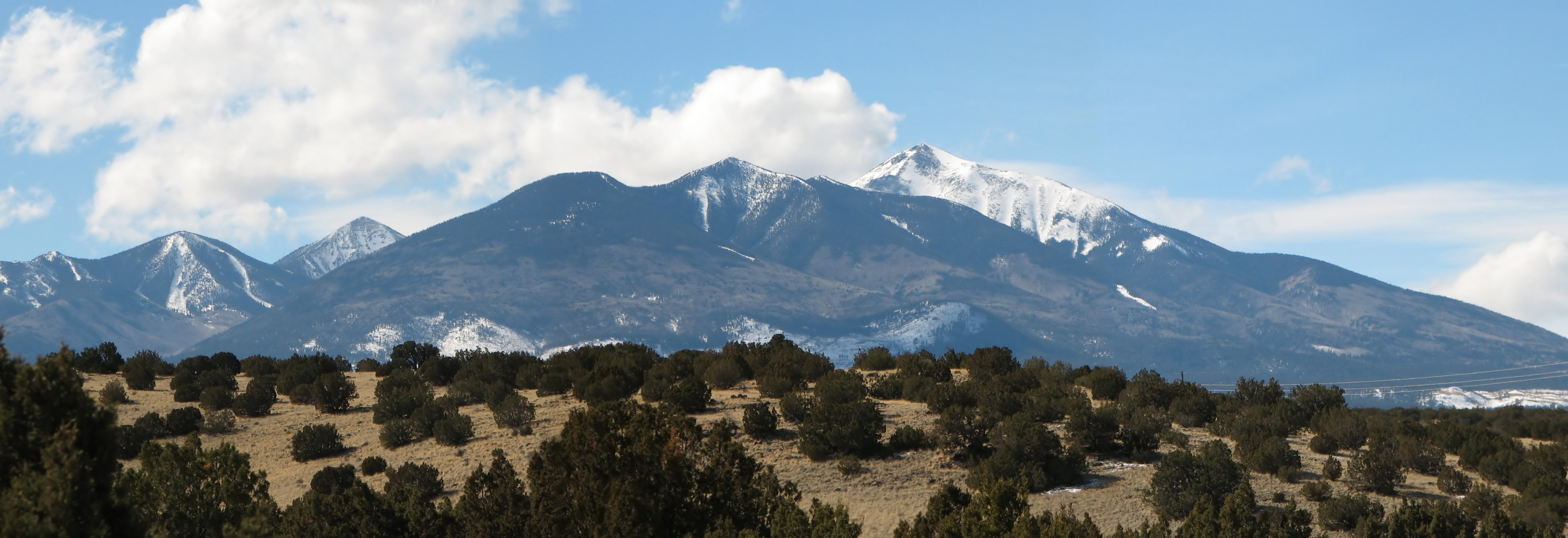 San Francisco Peaks seen from U.S. Route 89, Arizona, USA